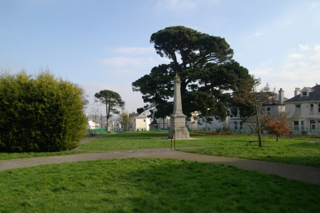 Victoria Gardens, Saltash. Victoria Gardens, Saltash, looking at the back of Symons Monument 59284